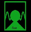 Lexigram describing Sue Savage-Rumbaugh